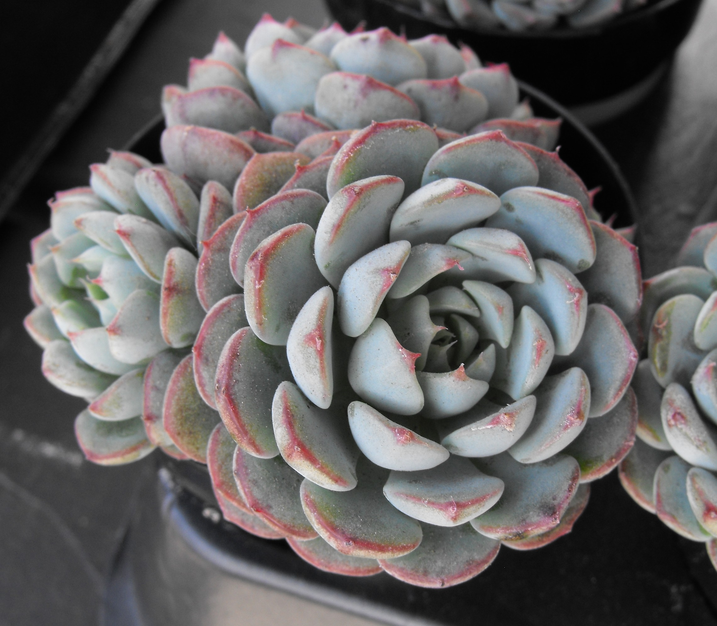 Echeveria minima at the San Diego Home & Garden Show, California, USA. Identified by exhibitor's sign.